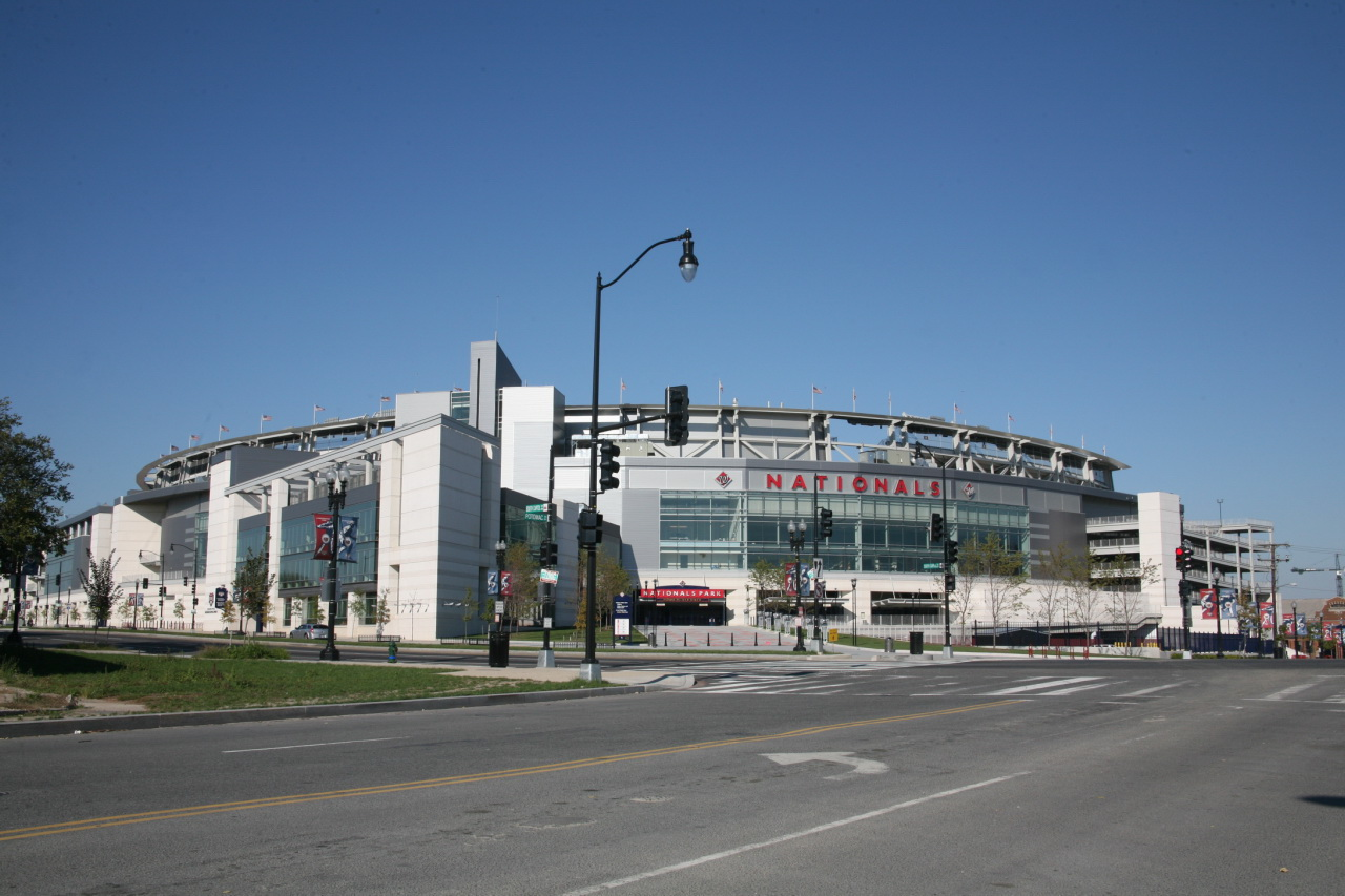 Nationals Park